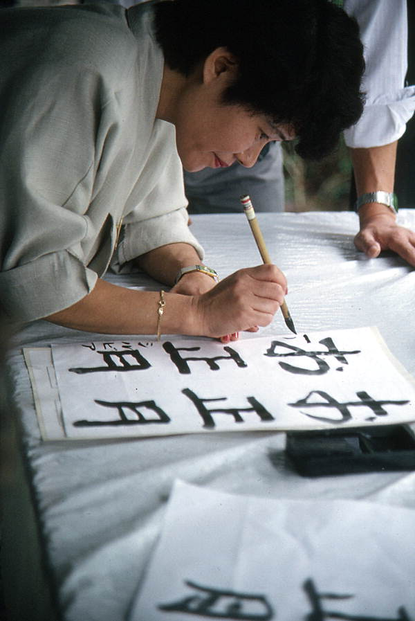 Local call number: fa3171 Title: Calligraphy Demonstration During Japanese New Year’s Celebration: Delray Beach, Florida Personal Author: Rosenberg, Jan, Collector Date: January 1988 Physical descrip: 1 slide: col. Series Title: Florida Folklife Collection Repository: State Library and Archives of Florida, 500 S. Bronough St., Tallahassee, FL 32399-0250 USA. Contact: 850.245.6700. Persistent URL